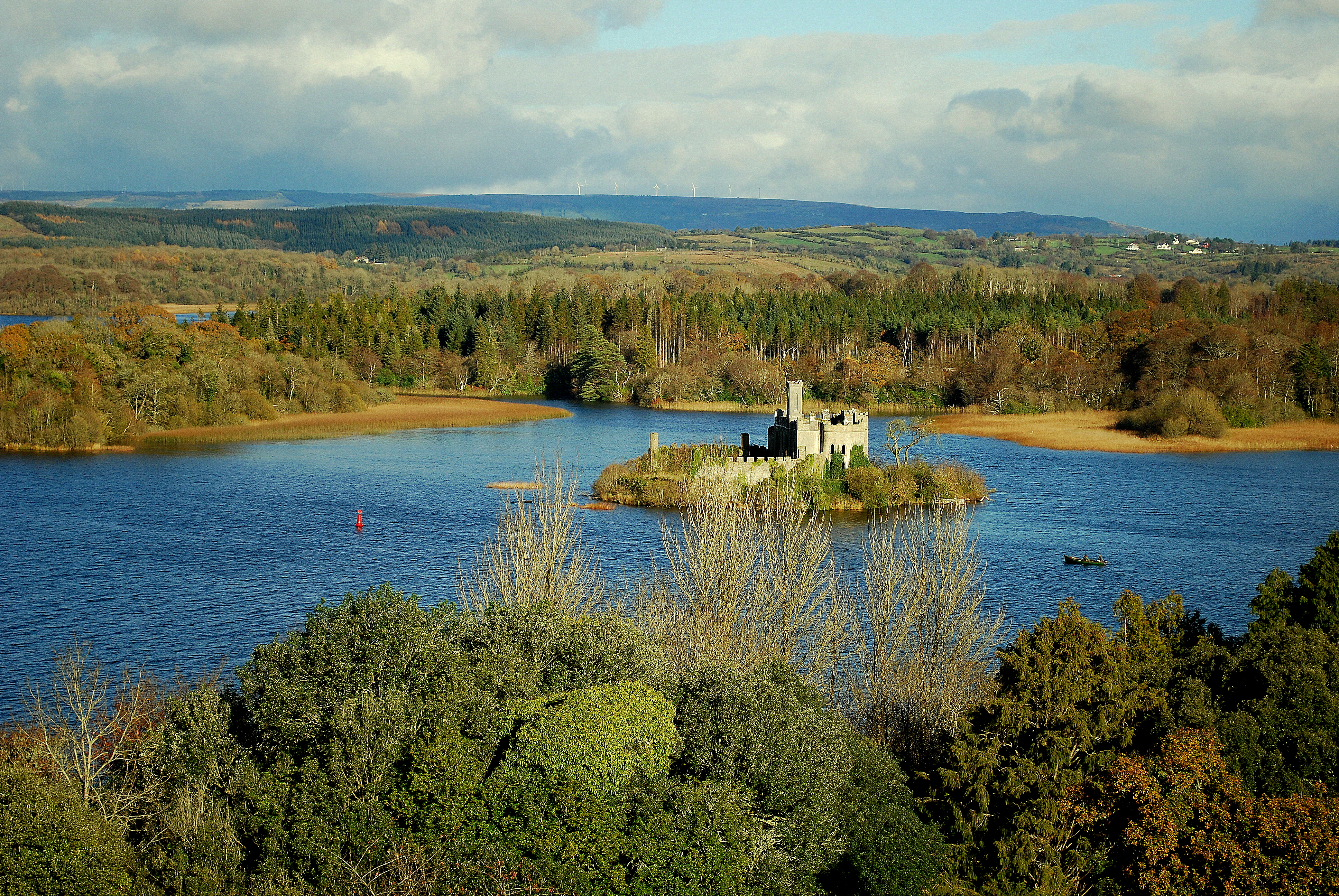 The Rock, now called Castle Island, was the McDermott's official residence. (There is reference to Castle Island in the annals of Lough Ce as early as 1184. During this time the park was called Moylurg and the Kings of Moylurg were the McDermotts).